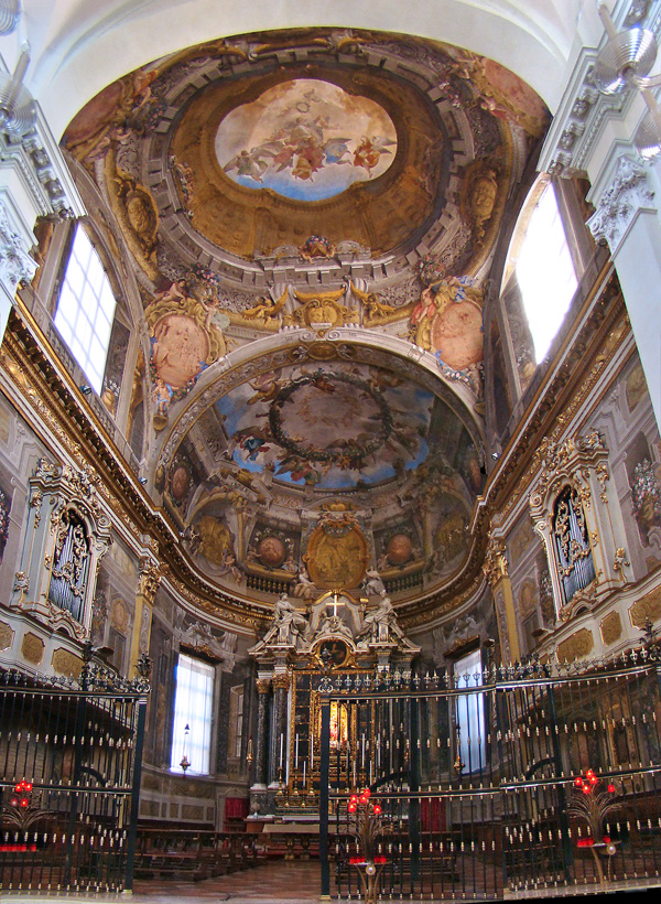 San Domenico Basilica, Bologna, Emilia-Romagna, Italy. Rosary chapel.